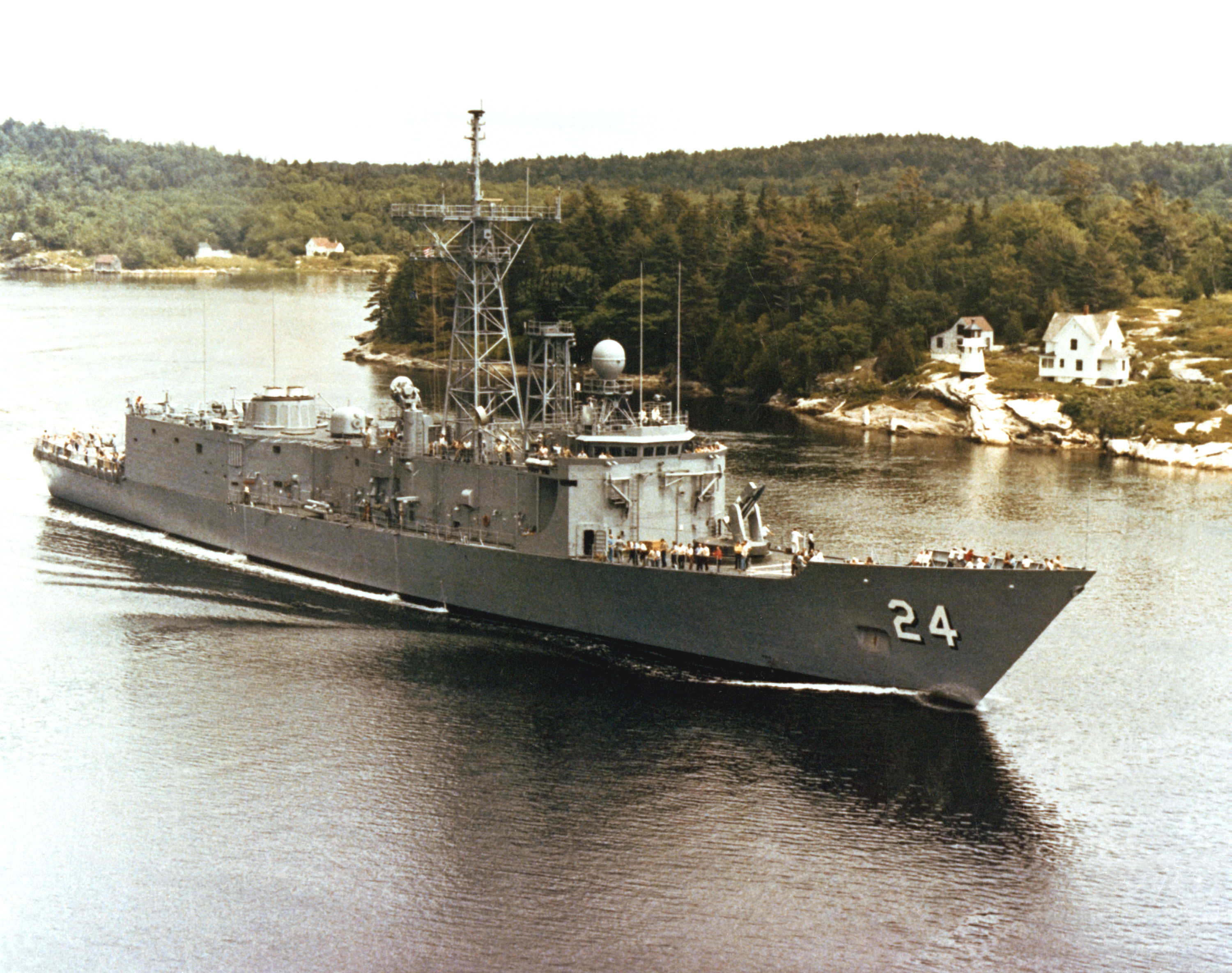 An aerial starboard bow view of the Oliver Hazard Perry-class guided missile frigate USS Jack Williams (FFG-24) underway.